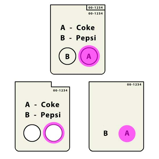 A diagram of a marked ballot for a punchscan election.